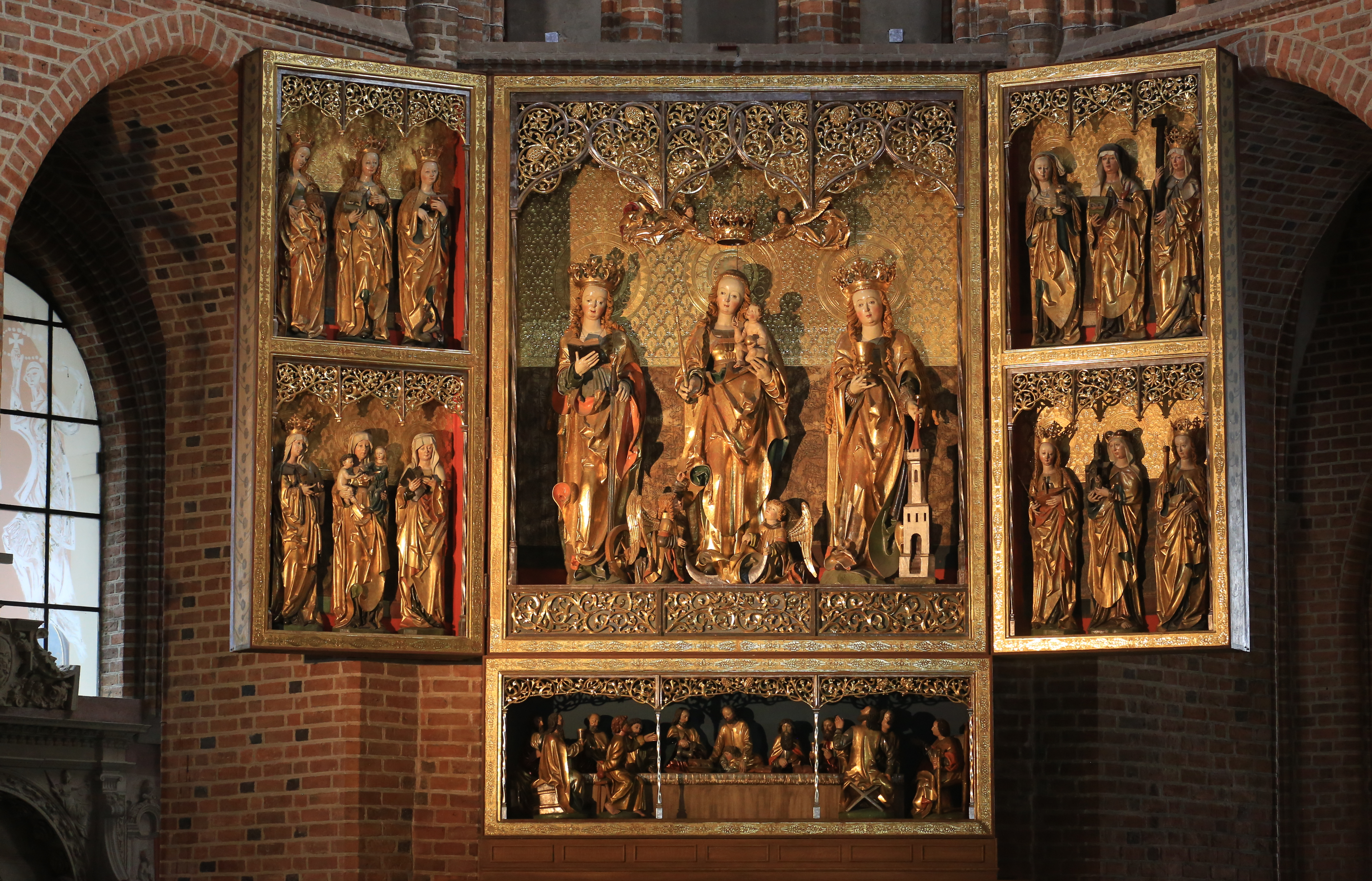 Main altar in the cathedral of Poznań